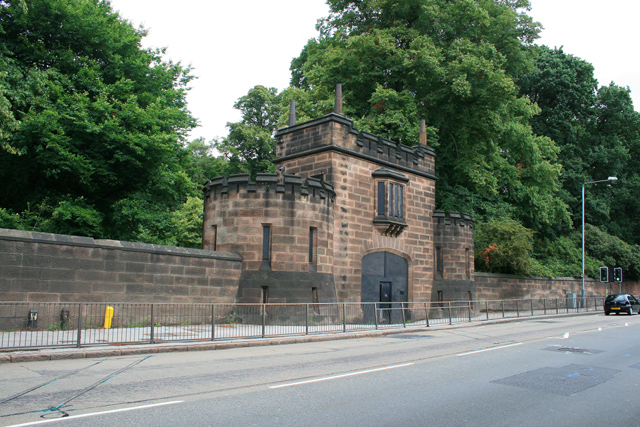 Wollaton Park Gatehouse A foot entrance to Wollaton Park from Derby Road. The view from within the park: 1661293.